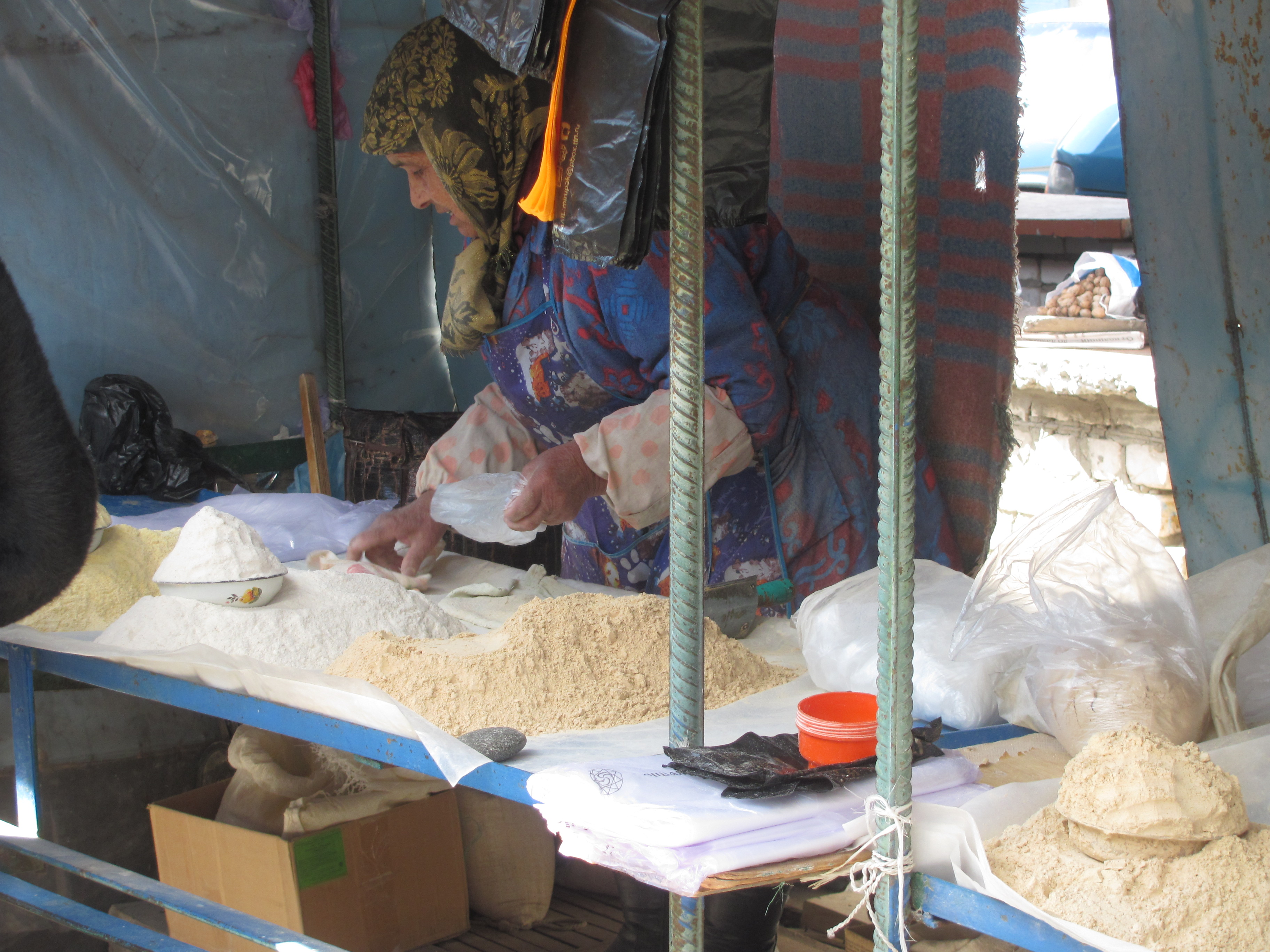 Karachayevsk market, Karachay-Cherkessia